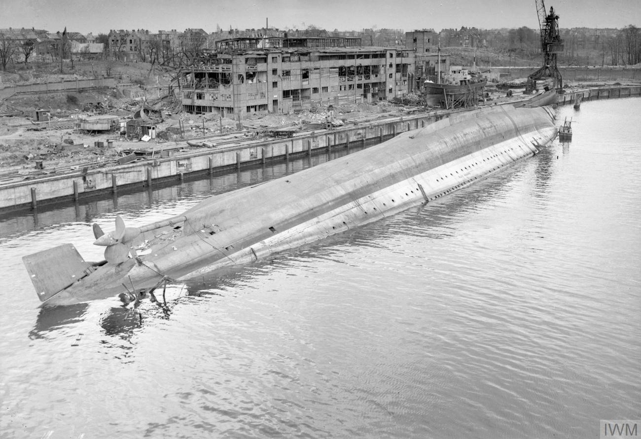 Royal Air Force Bomber Command, 1942-1945. The German heavy cruiser ADMIRAL SCHEER capsized in the docks at Kiel after being hit by bombs during a raid by Avro Lancasters of Nos 1 and 3 Groups on the night of 9/10 April 1945.